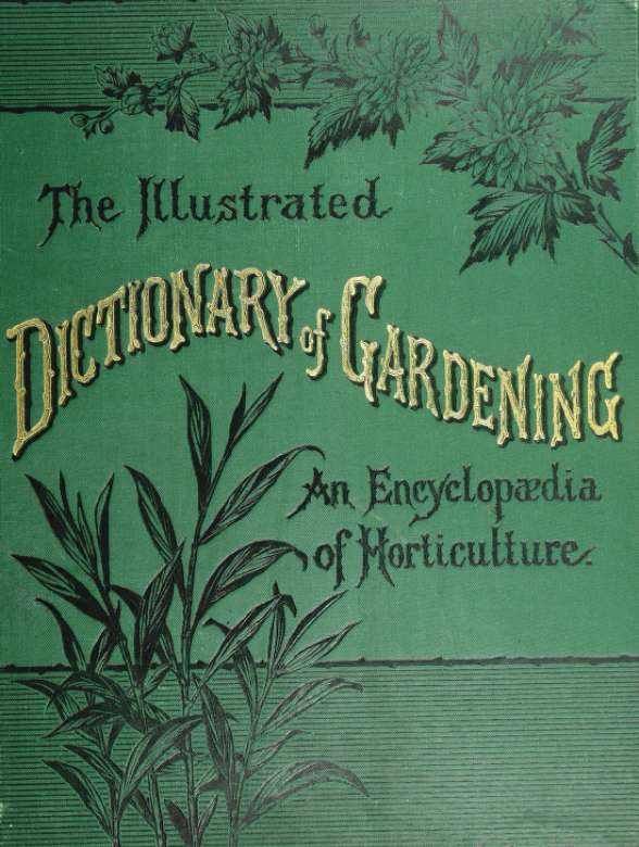 Cover of "The Illustrated Dictionary of Gardening"